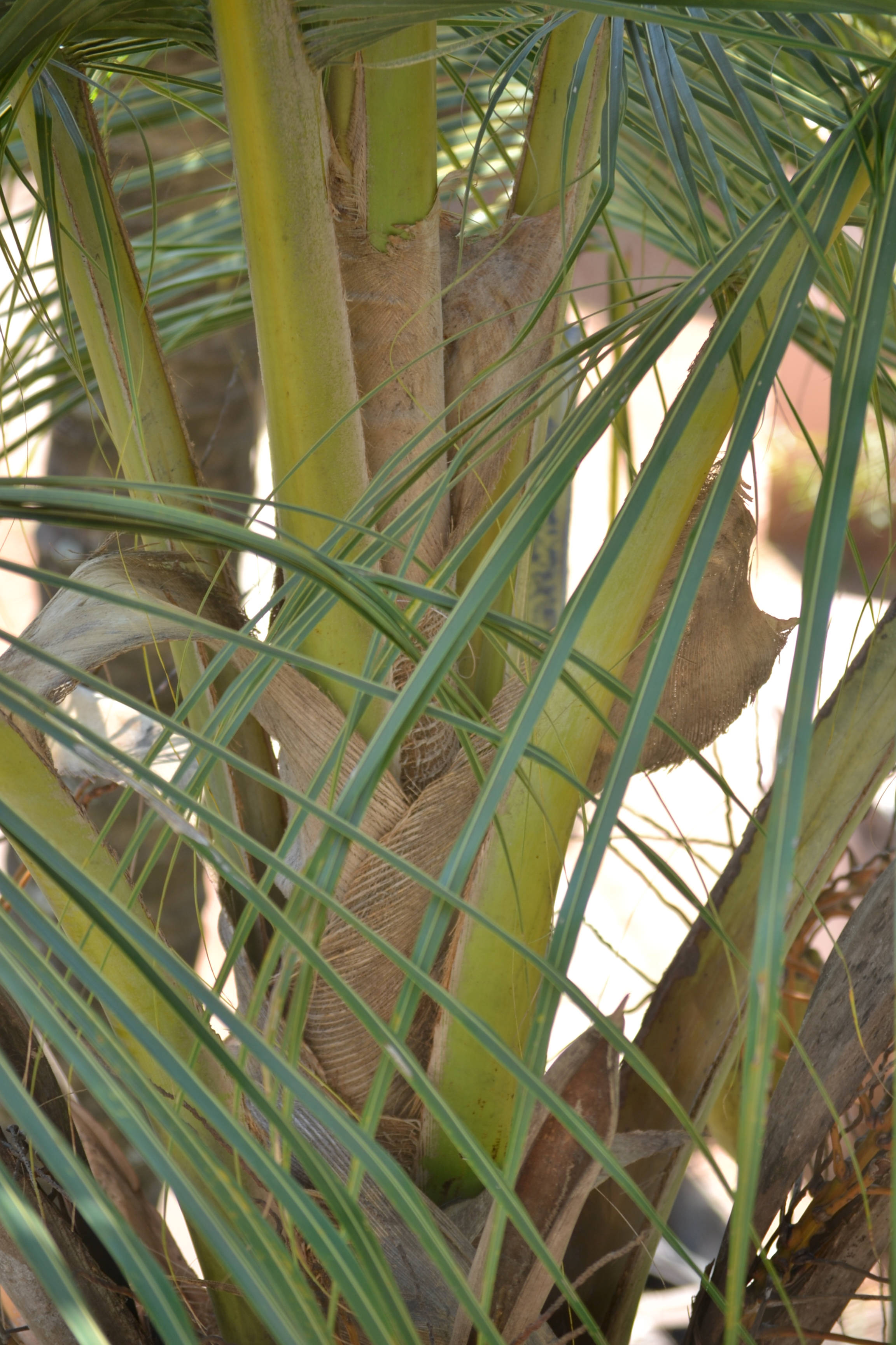 This is apart of coconut tree...